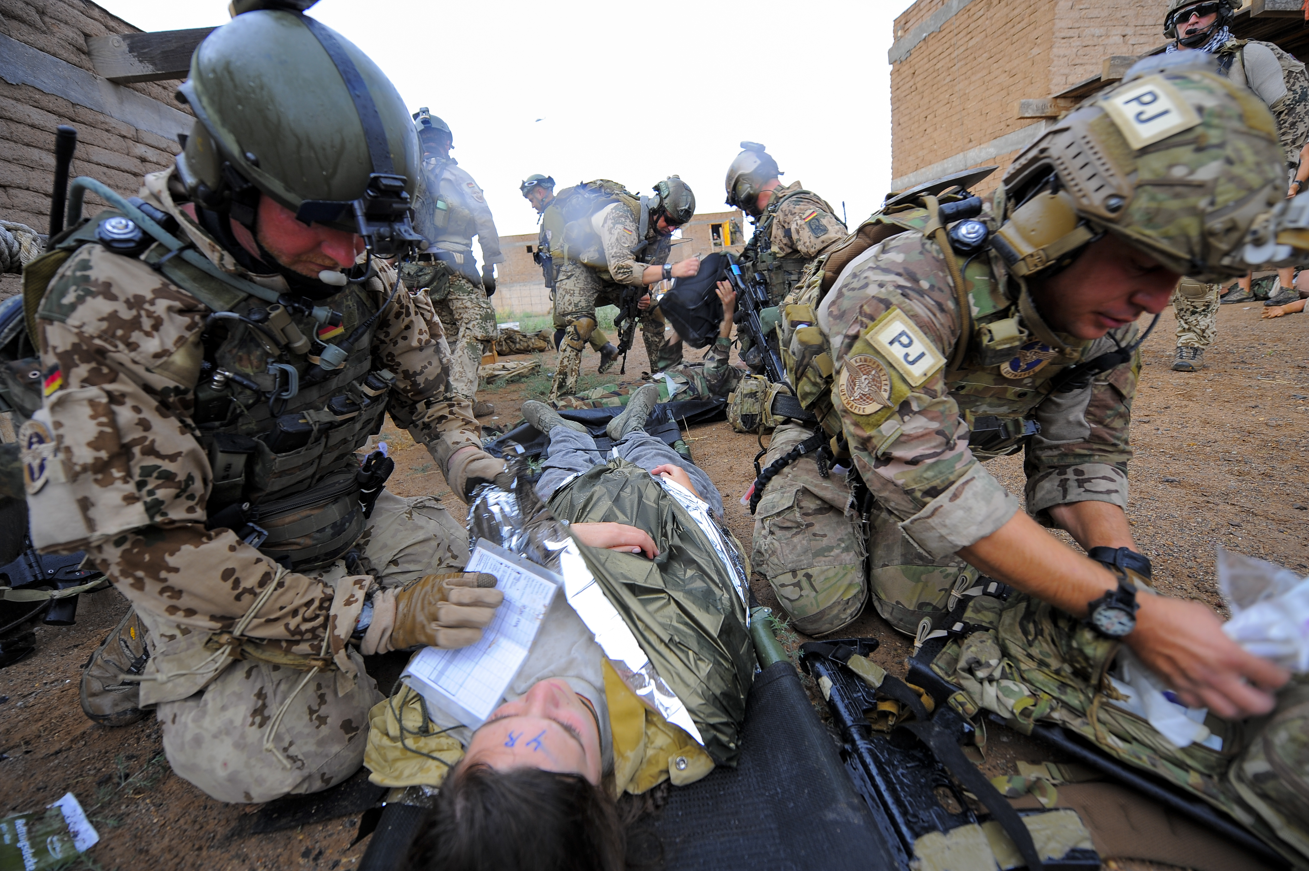 German (Kampfretter soldiers, source) and U.S. Air Force pararescusmen treat a simulated victims of a vehicle explosion during an Angel Thunder 2015 mass casualty evacuation exercise at Playas Research and Training Center, N.M., June 9, 2015. The victims were brought to a casualty collection point where they were triaged and transferred to a U.S. Air Force HH-60 Pave Hawk, U.S. Navy MH-60 Seahawk or a German CH-53GS helicopter for medical evacuation. (U.S. Air Force photo by Staff Sgt. Angela Ruiz/Released)